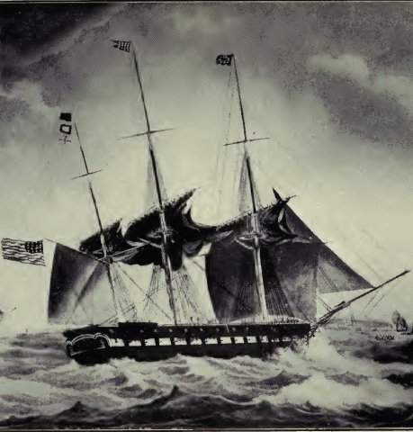 Illustration from book Old Naval Days